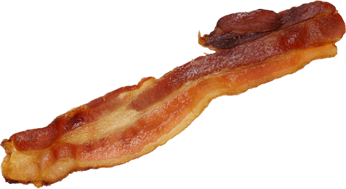 tasty bacon